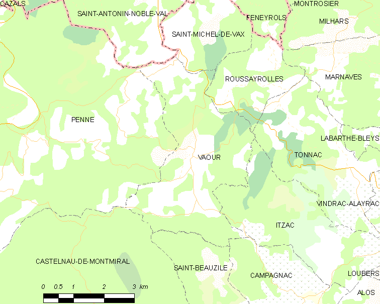 Map of French municipality Vaour